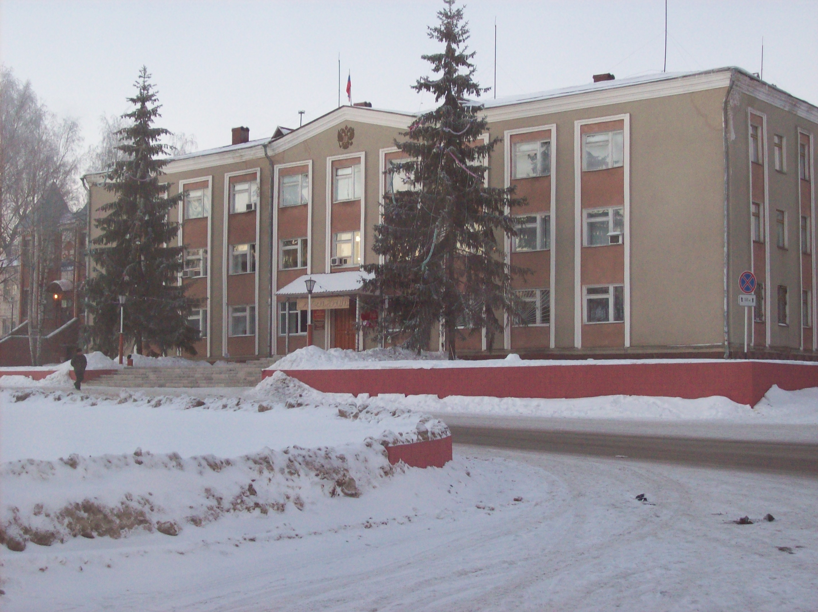 Building of administration of the Vorotynets area of Nizhni Novgorod region.